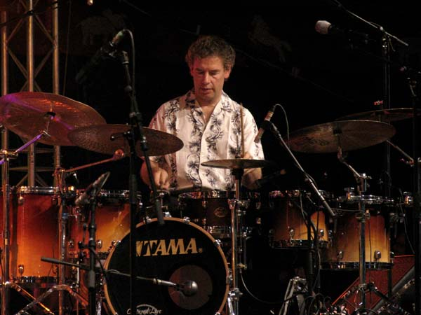 Bill Bruford at moers festival 2004 own photo, may 31, 2004- photo: nomo/michael hoefner